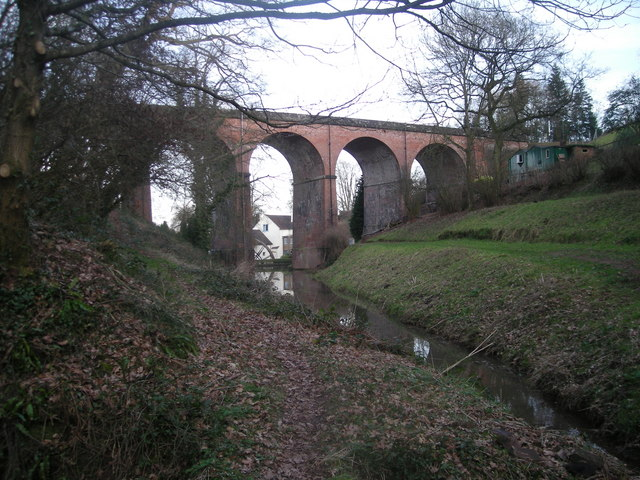 Daniels bridge & mill Be careful. I got into trouble here. The path on the left of the stream is a public Right of Way - no problems. To the right of the stream are two paths, one is a Right of Way the other one isn't. Guess which one I was on. The upper path is on private property.